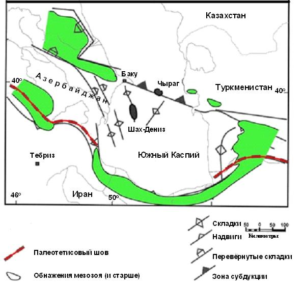 South Caspian Basin (russian) with Mezozoic (and older) outcrops